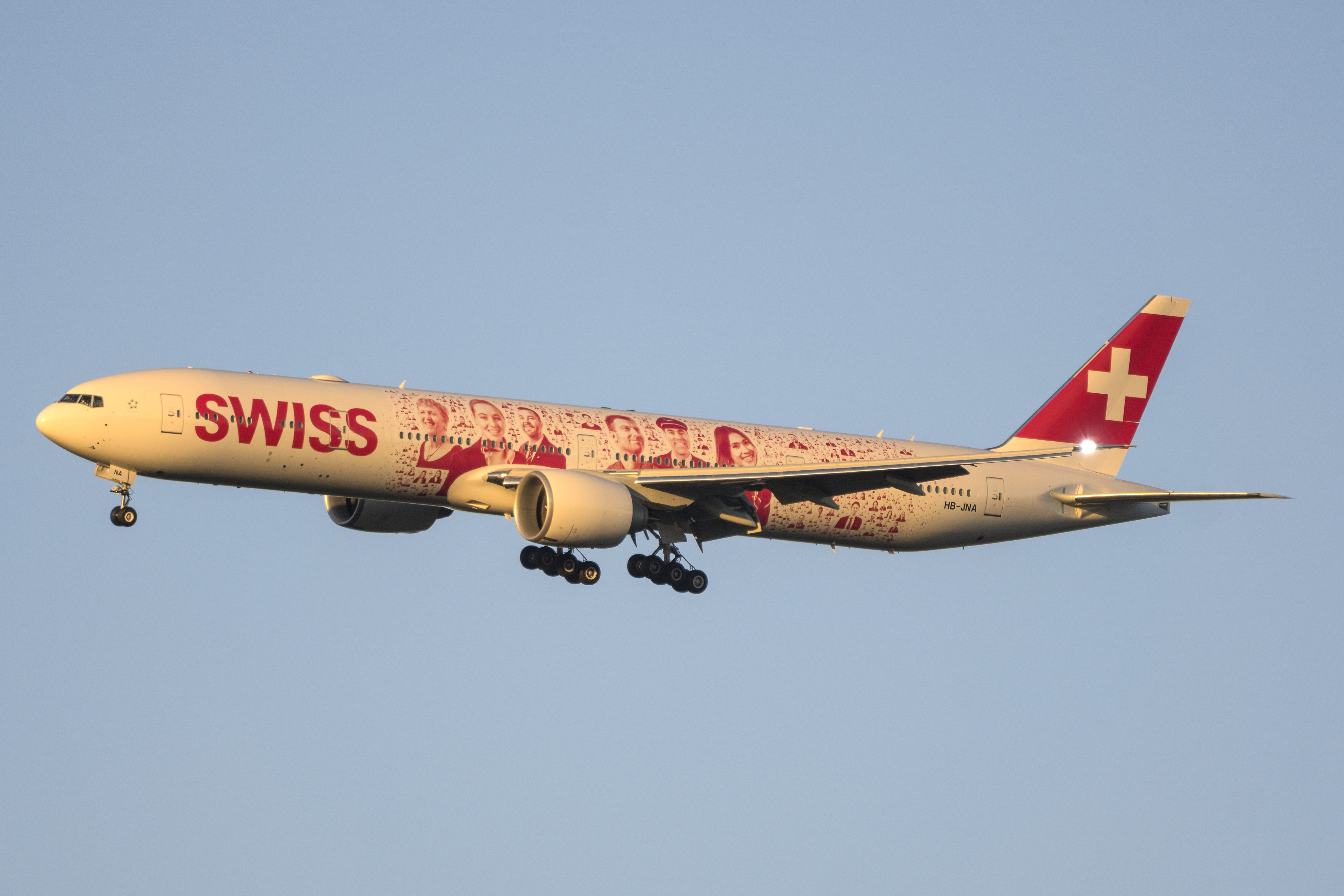 Swiss Boeing 777-3DE(ER)